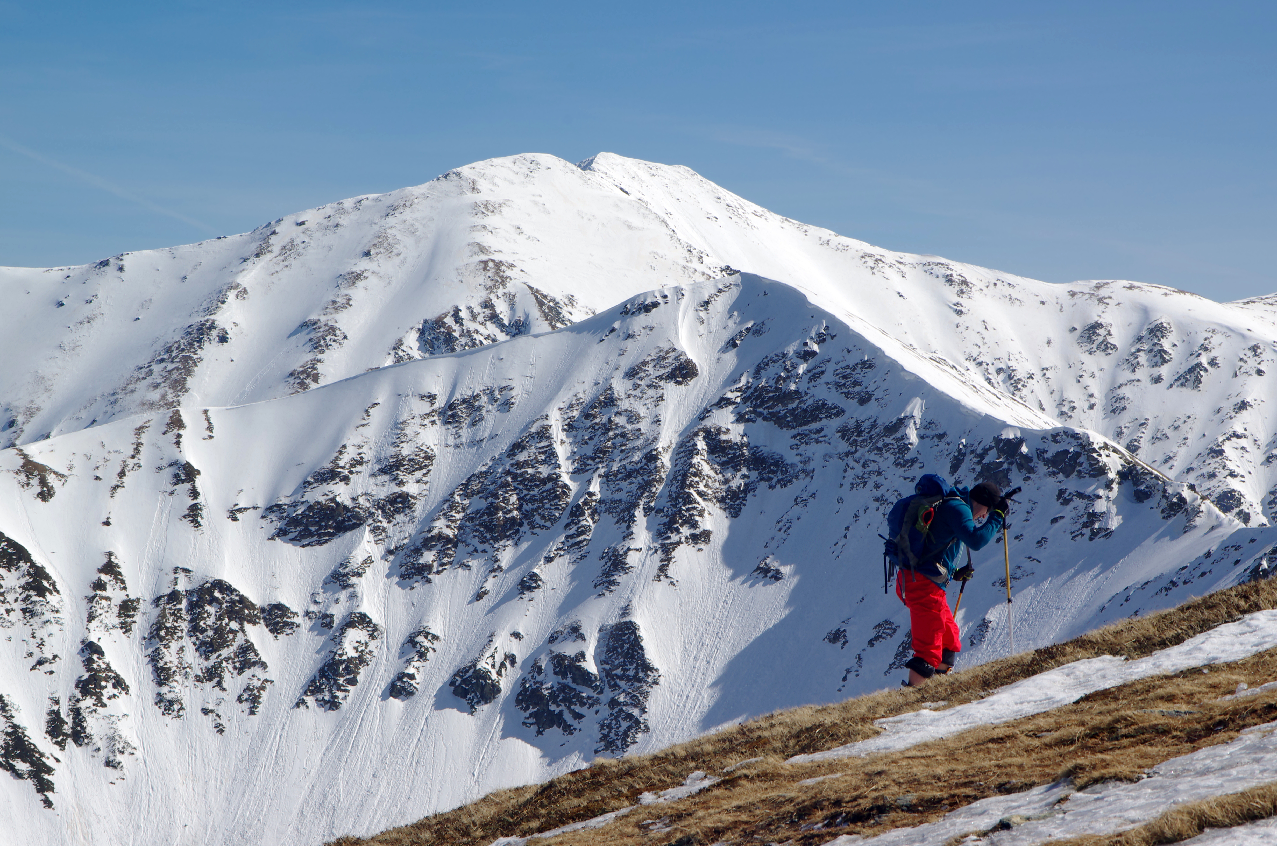 Jarząbczy Wierch and Łopata in Tatra Mountains, seen from Długi Upłaz